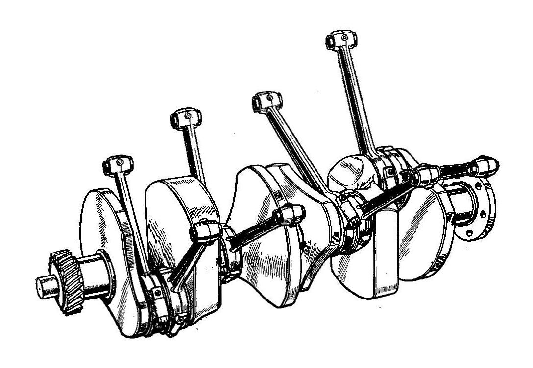 Ford V8 crankshaft (Autocar Handbook, 13th ed, 1935).jpg